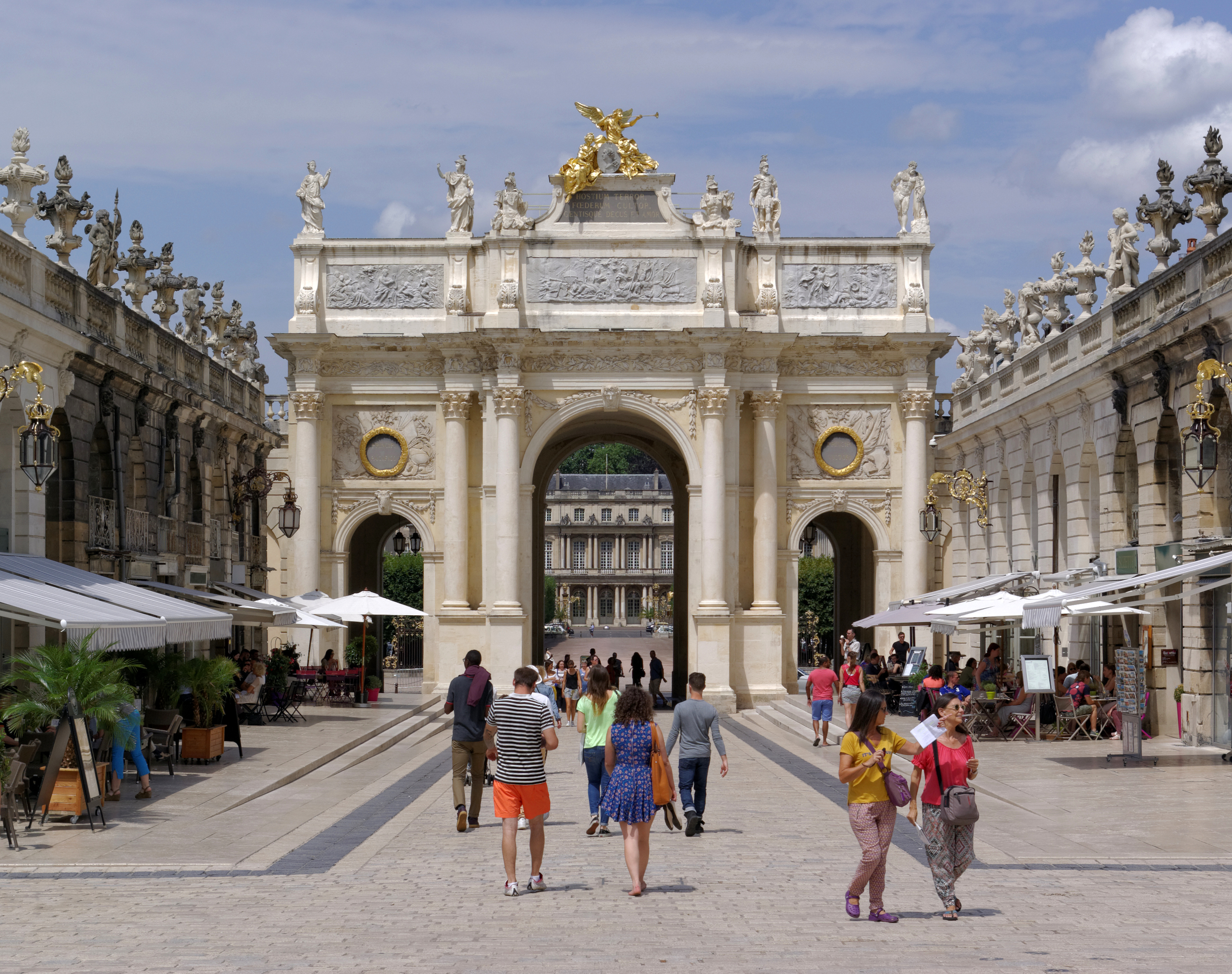 France, Nancy, Porte Héré